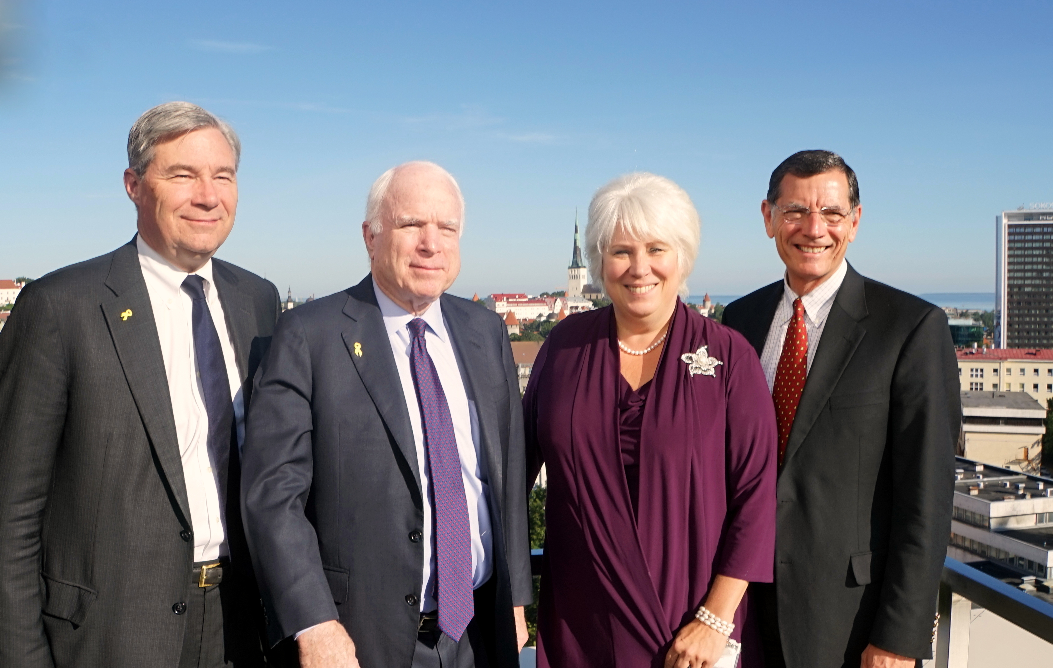 Meeting with U.S. Senate Delegation